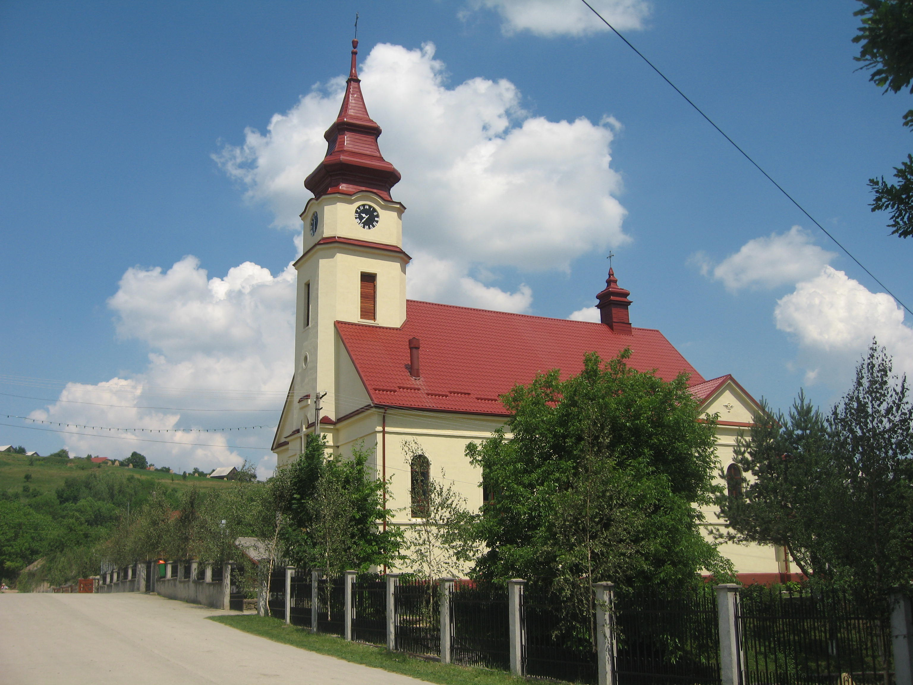 The Roman-Catholic Church in Soloneţu Nou, Suceava County, Romania